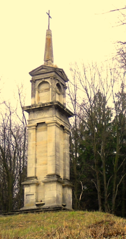 Monument to victims of the Tatar raids XVII century. Komarno. On the pedestal obelisk there is in Latin an inscription «Mea mors tua vita» - «My death is thy life" and the date "1641" and "1663".